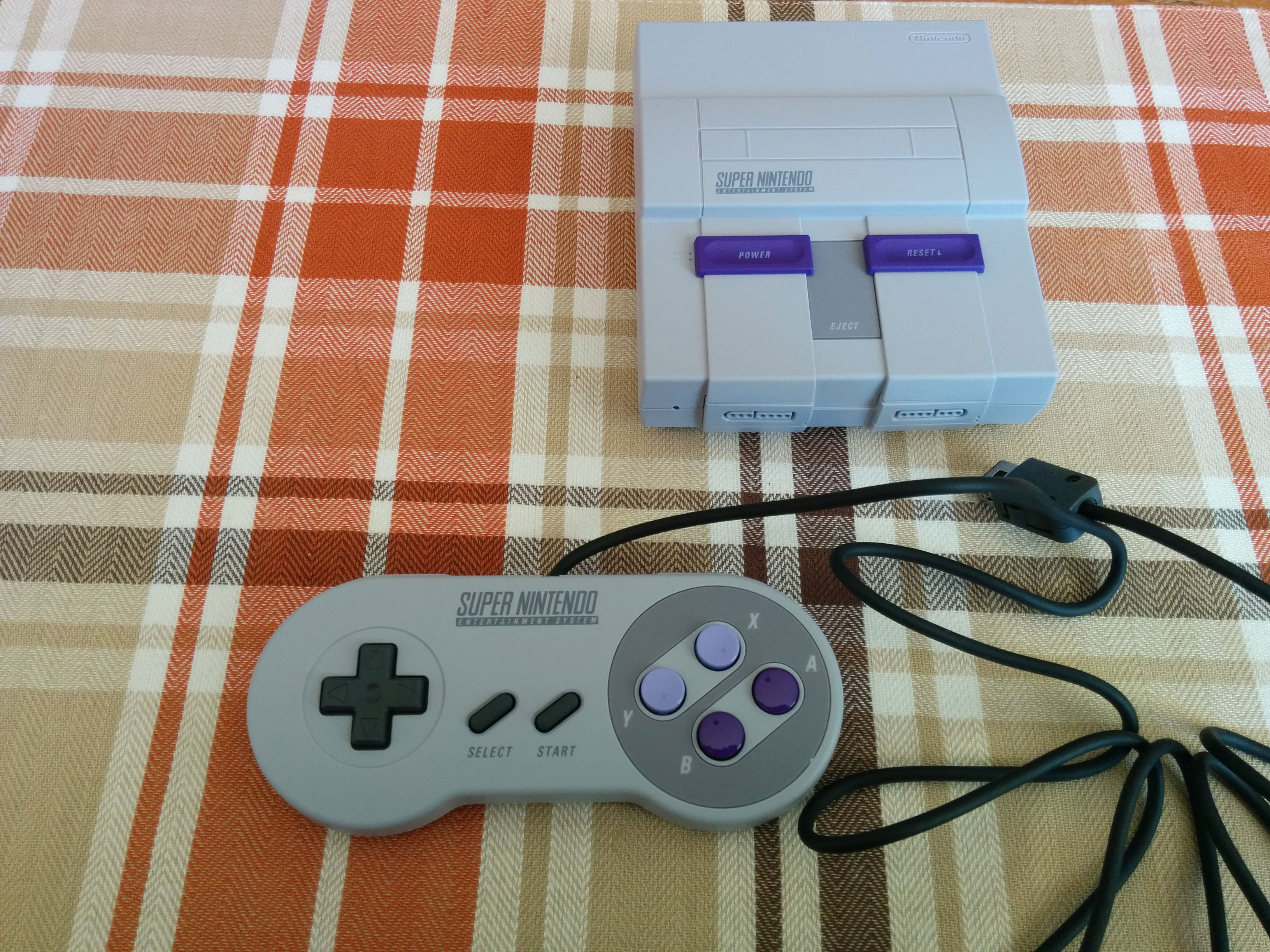 Super Nintendo Classic Edition console with controller (North American variant)